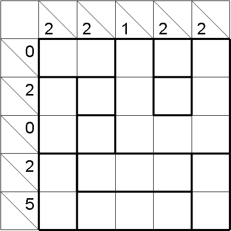 Tile paint grid